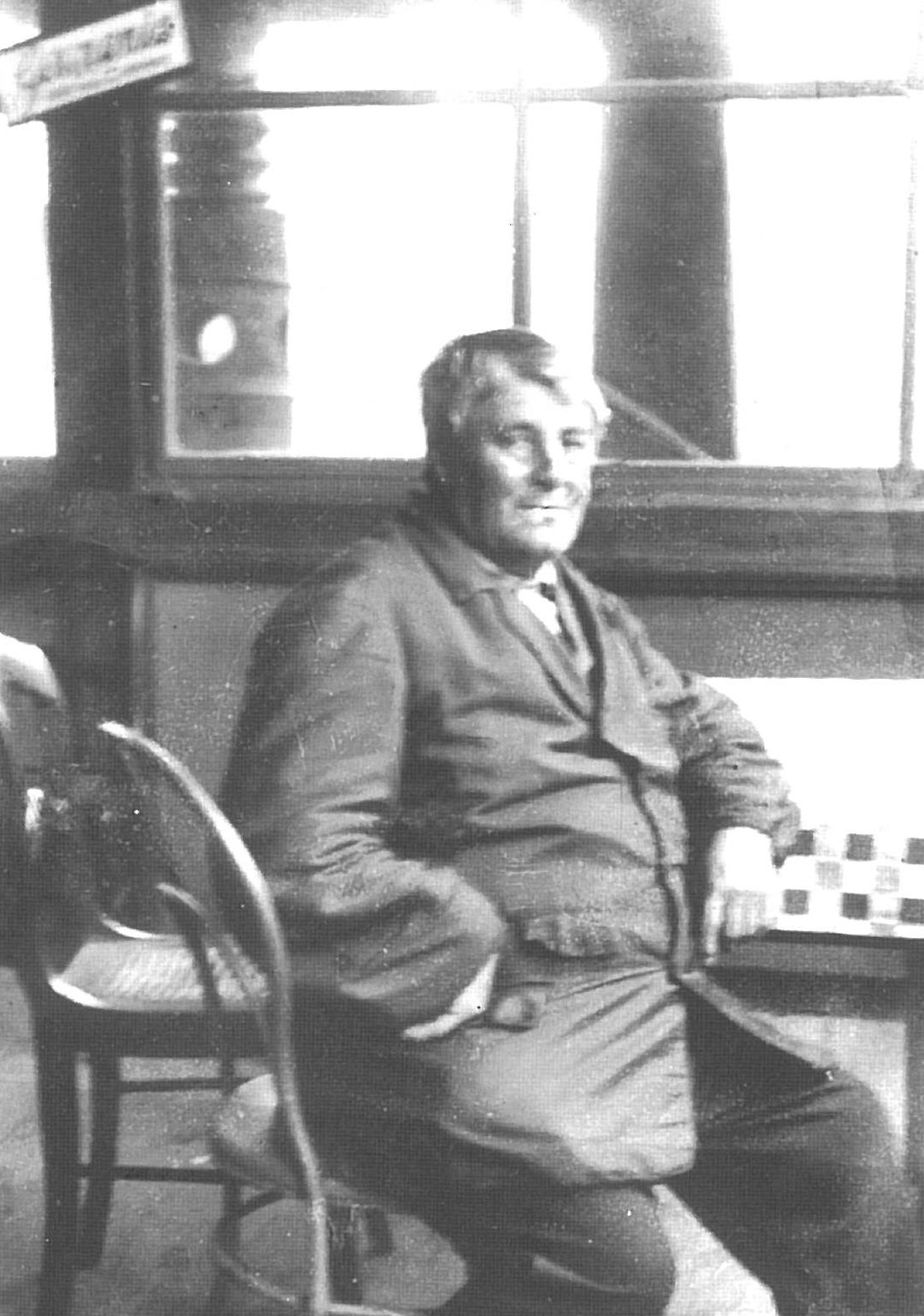 historic photography of Alois Erhard in Bamberg, Germany